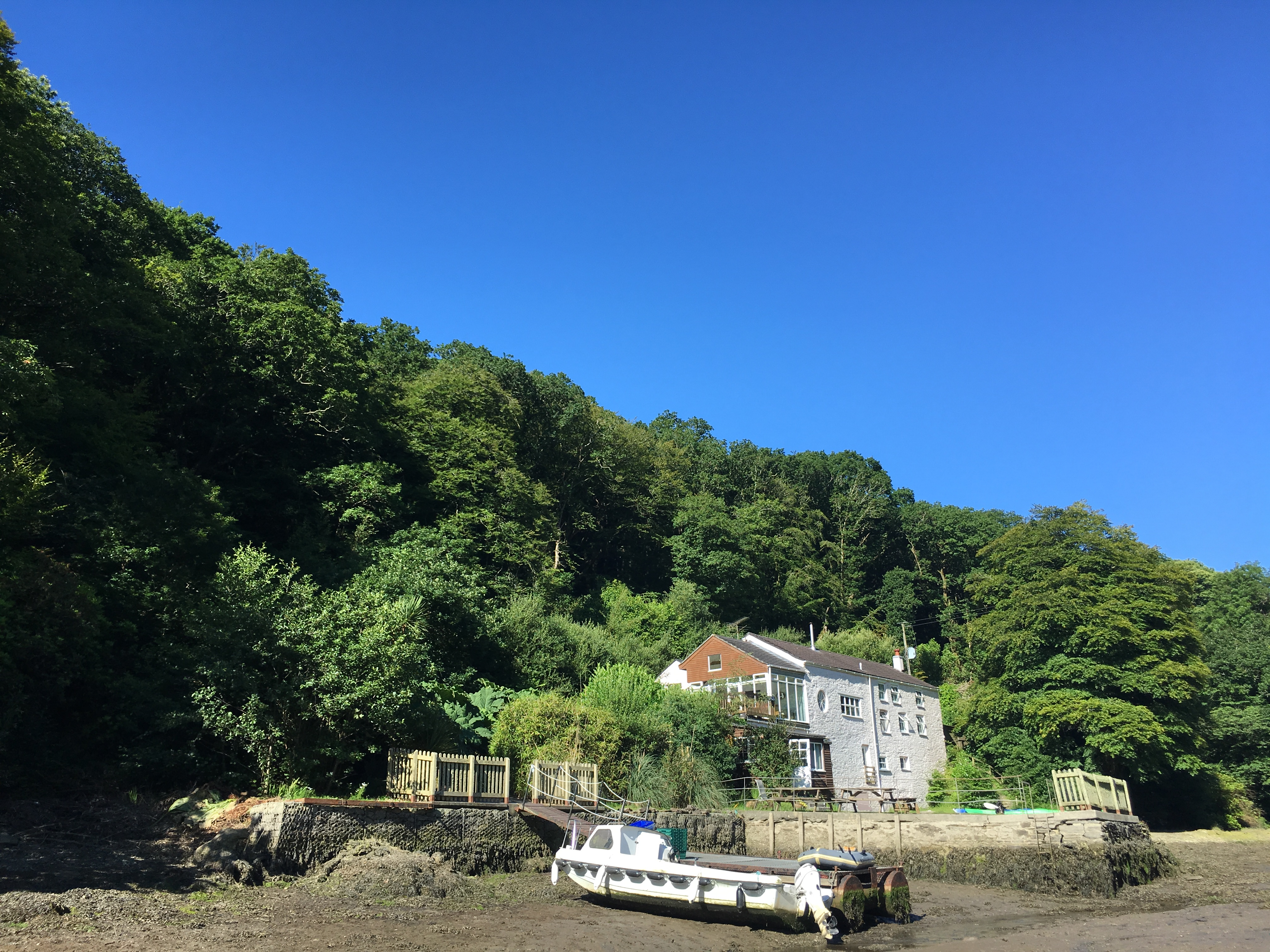 The Sawmills Studios in Golant, Cornwall. In the foreground is a boat that the studios use to ferry guests and equipment in from Golant along the river Fowey.